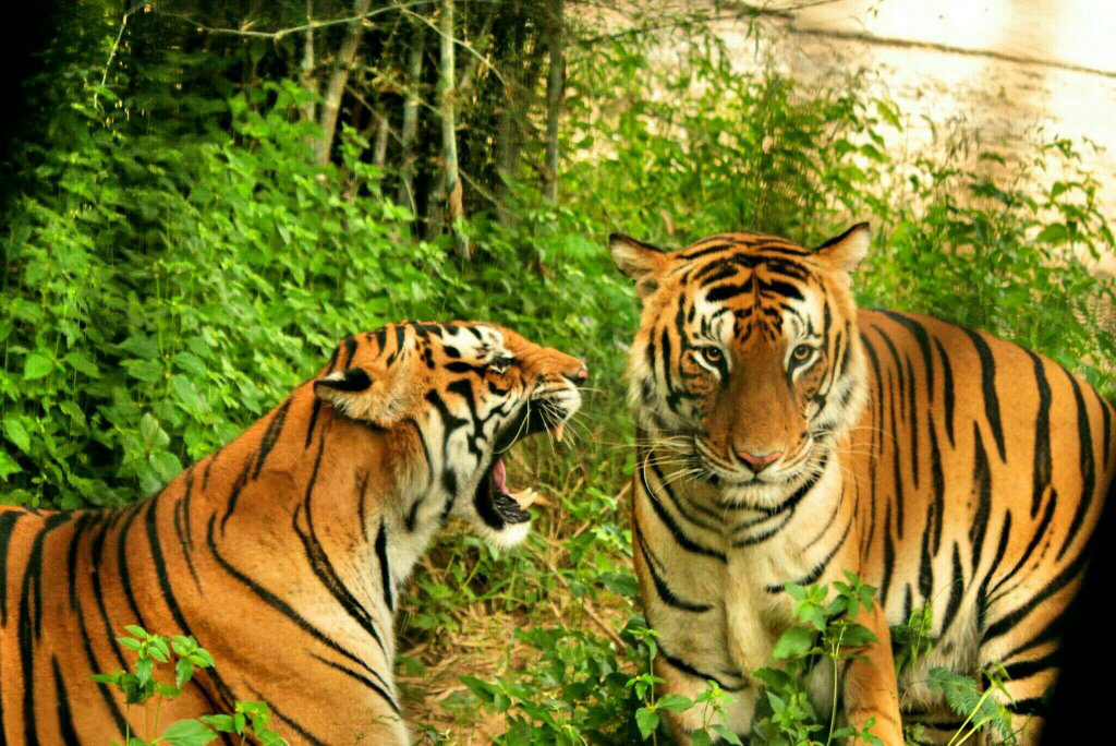 Two tigers- Ferocious and powerful , their look says it all. Picture was captured at Bannerghatta National park, Bangalore